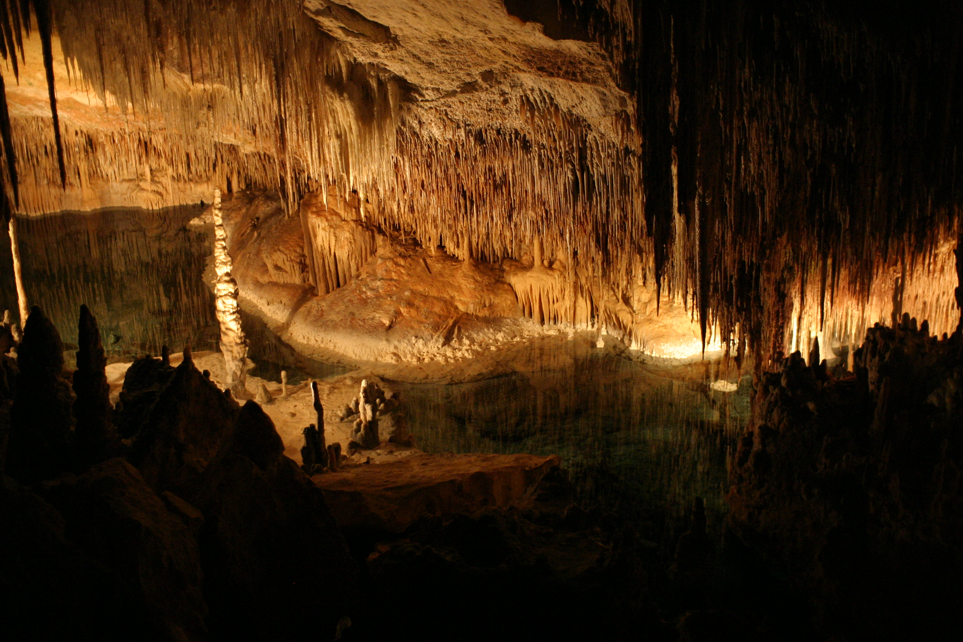 View of Cuevas del Drach, in Porto Cristo, Manacor, Mallorca, Spain.